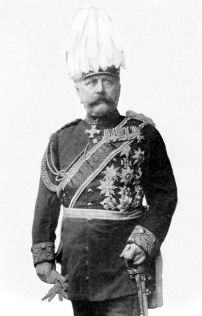 General Carl von Hänisch (Preussen) Photography after a painting in the "Militärhistorisches Museum Dresden", (gift by the family v. Hänisch), the photograpy still owned by the family v. Hänisch and also printed in Genealogisches Handbuch des Adels, Adelige Häuser B XV, Seite 182, Band 83 der Gesamtreihe, C. A. Starke Verlag, Limburg (Lahn) 1984